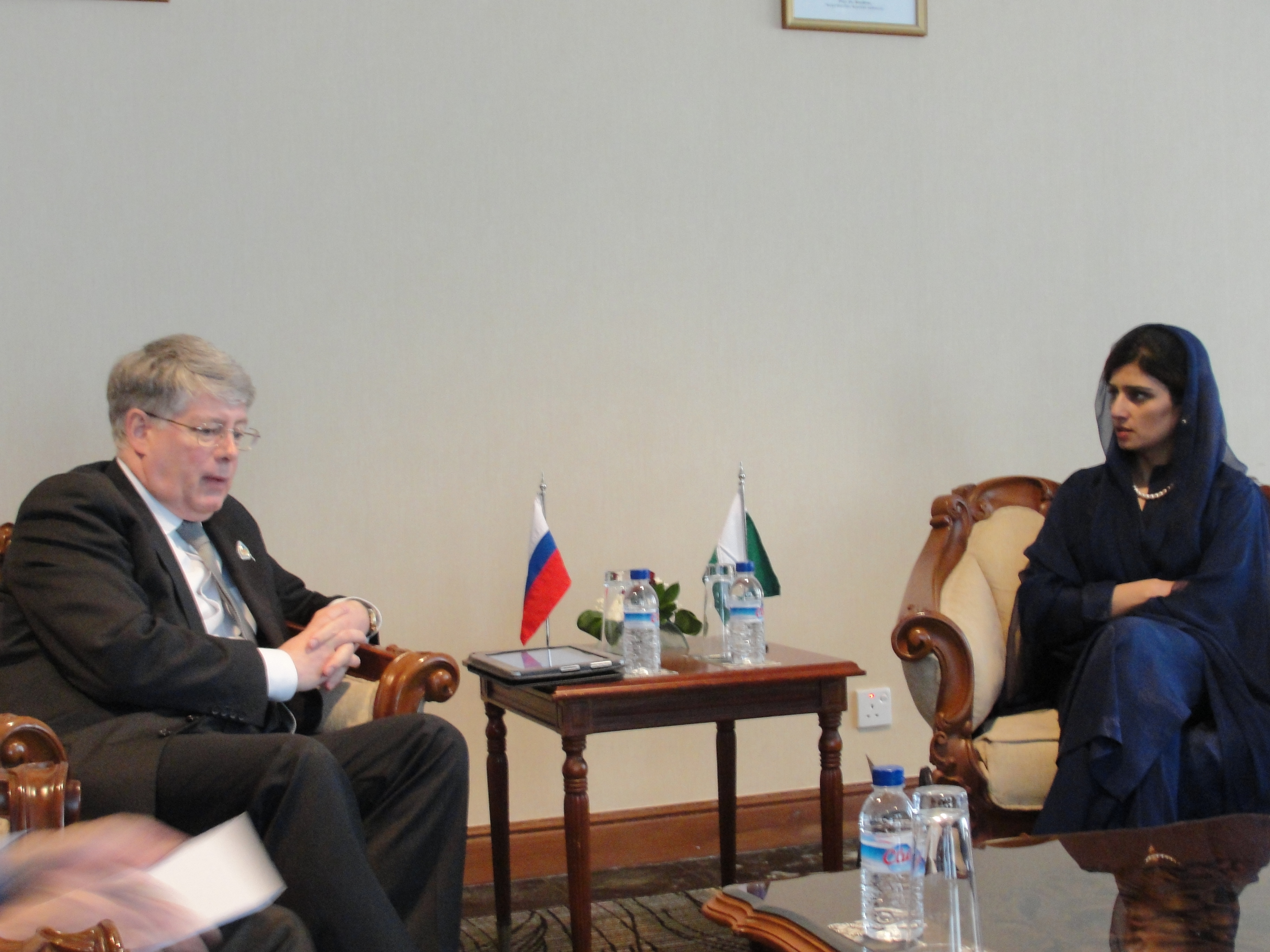 Pakistan Foreign Minister Mrs.H.R.Khar with Deputy Foreign Minister of Russia Mr.A.N.Borodavkin (July 2011)